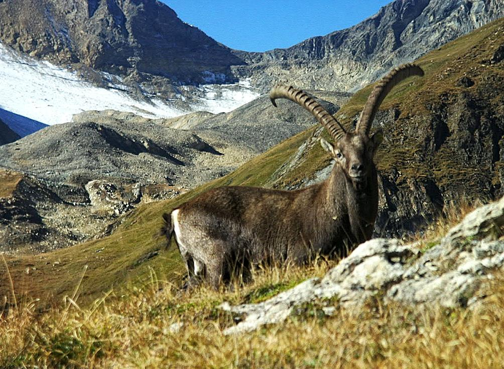 Alpine Ibex near Lauchernalp (Lötschental), Switzerland